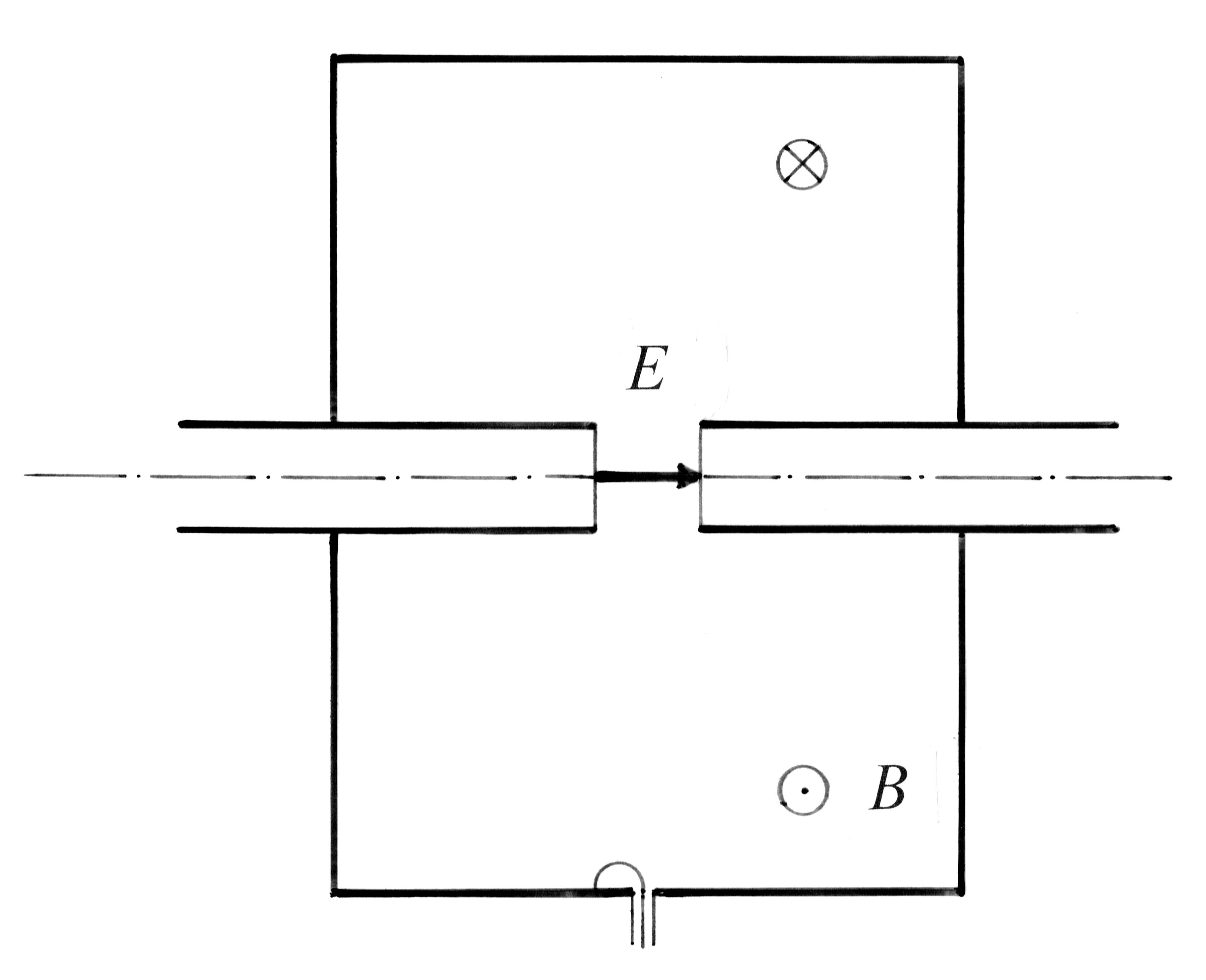 RF resonator cavity for a particle accelerator